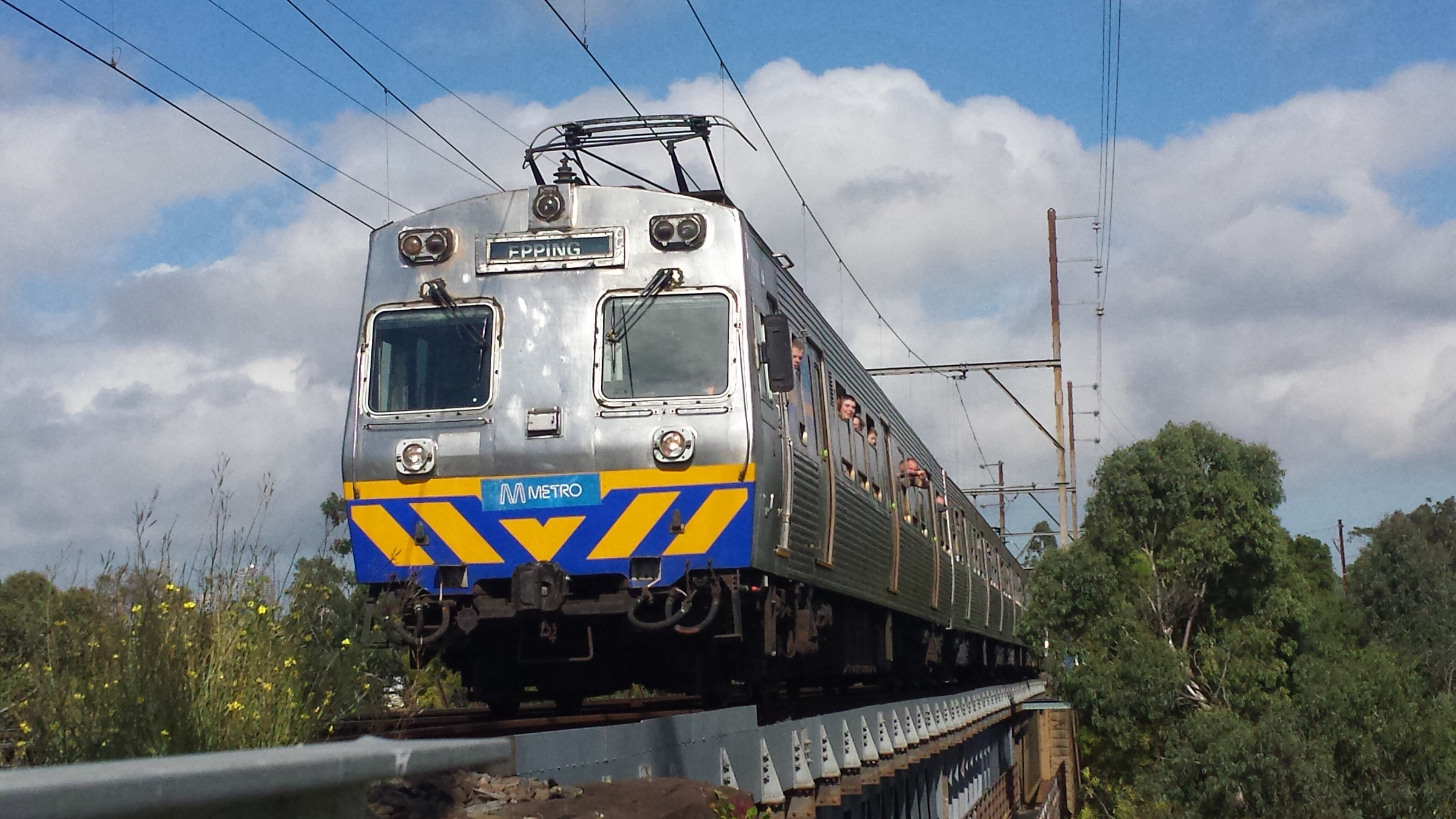 A vandalised hitachi crosses the Merri creek